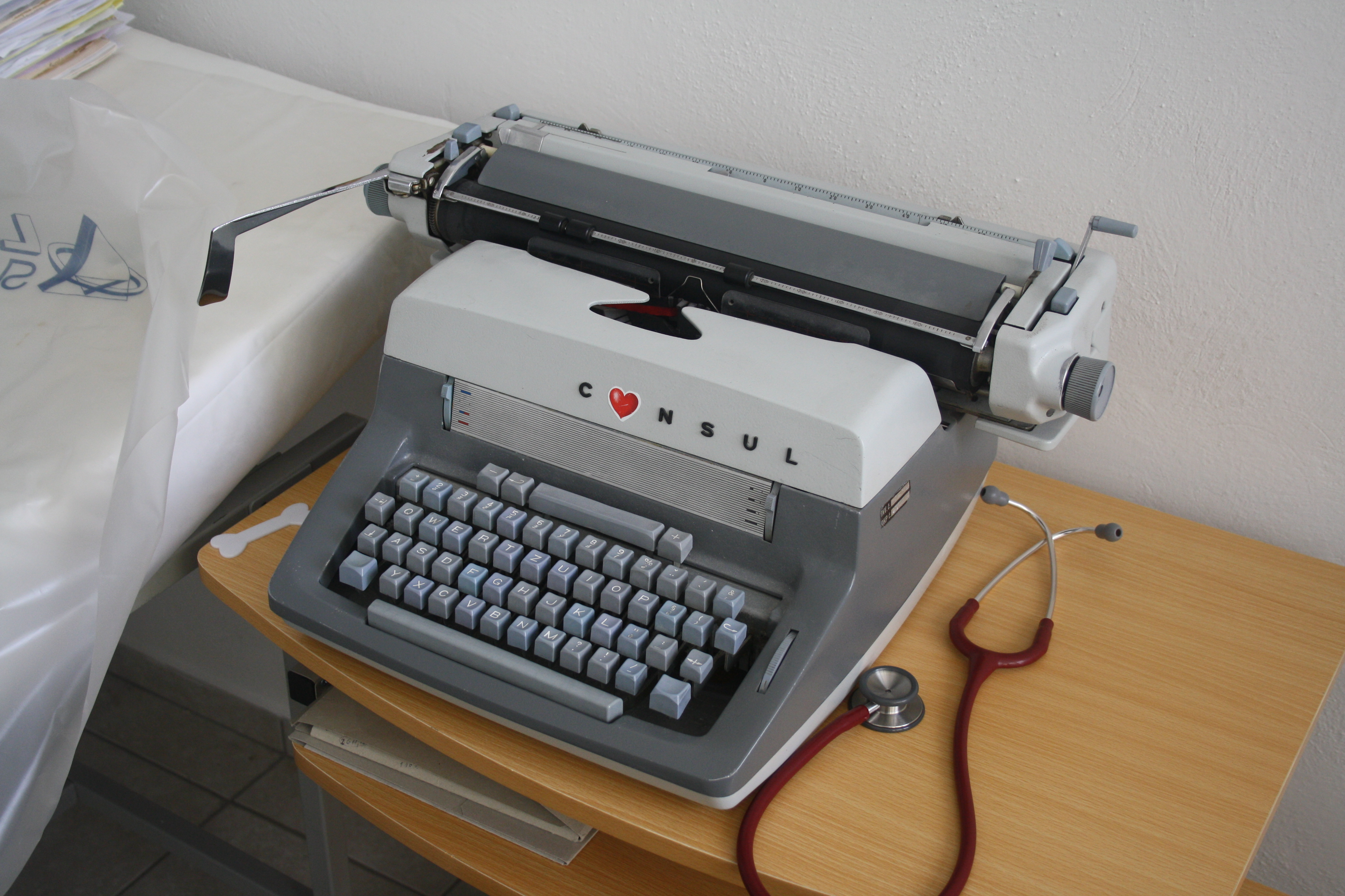 Consul typewriter.